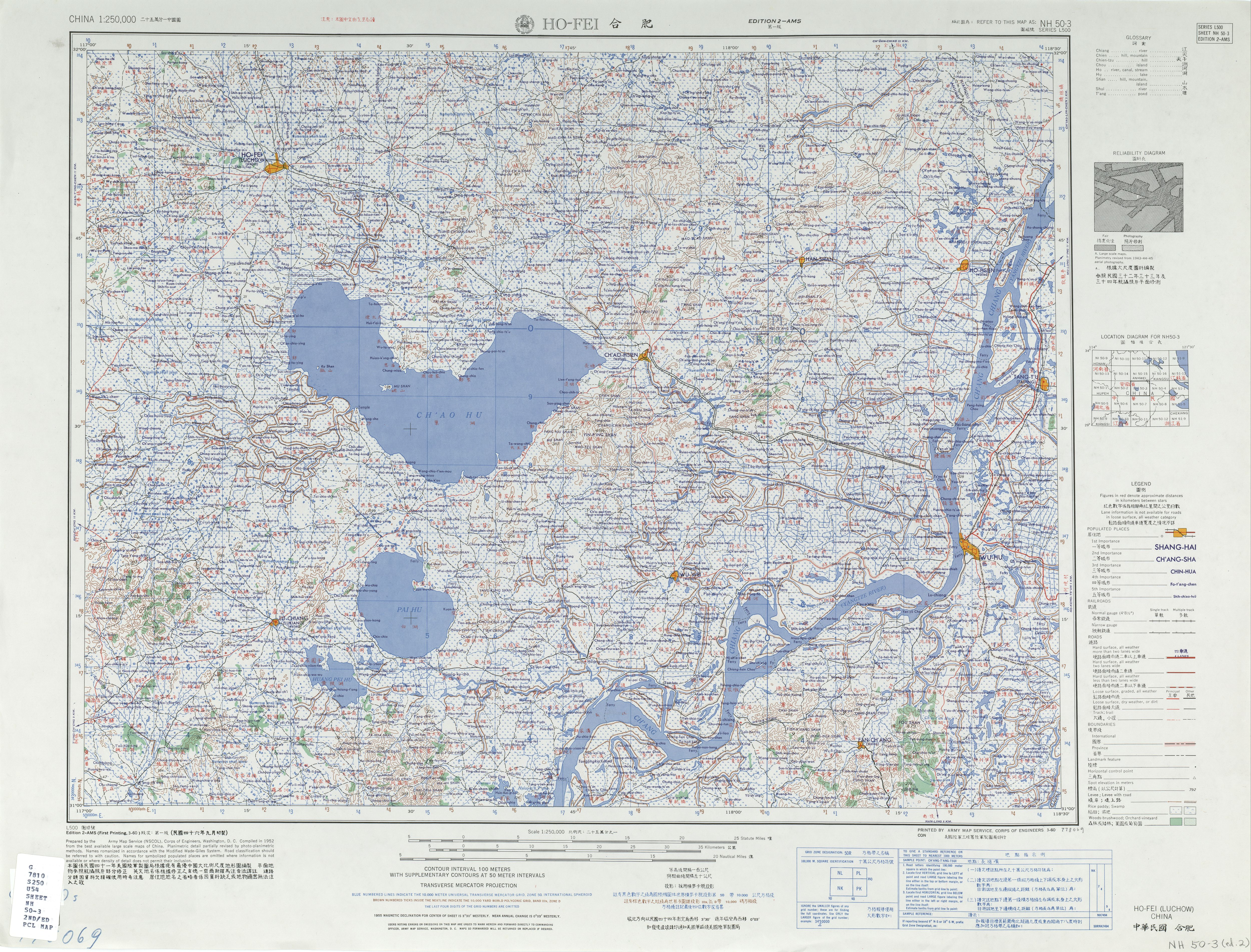 China AMS Topographic Maps series